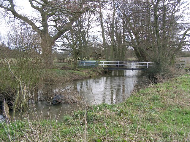 River Blackwater east of Testwood Lake Looking downstream along the River Blackwater, not far upstream from its confluence with the River Test. The footbridge carries a public footpath across the river, from Testwood (to the right) to Nursling Mill (to the left).